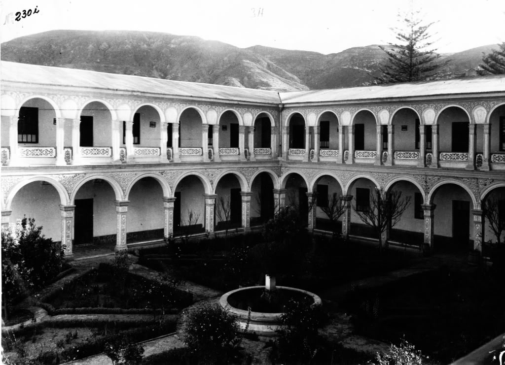 ClaustroSanFco